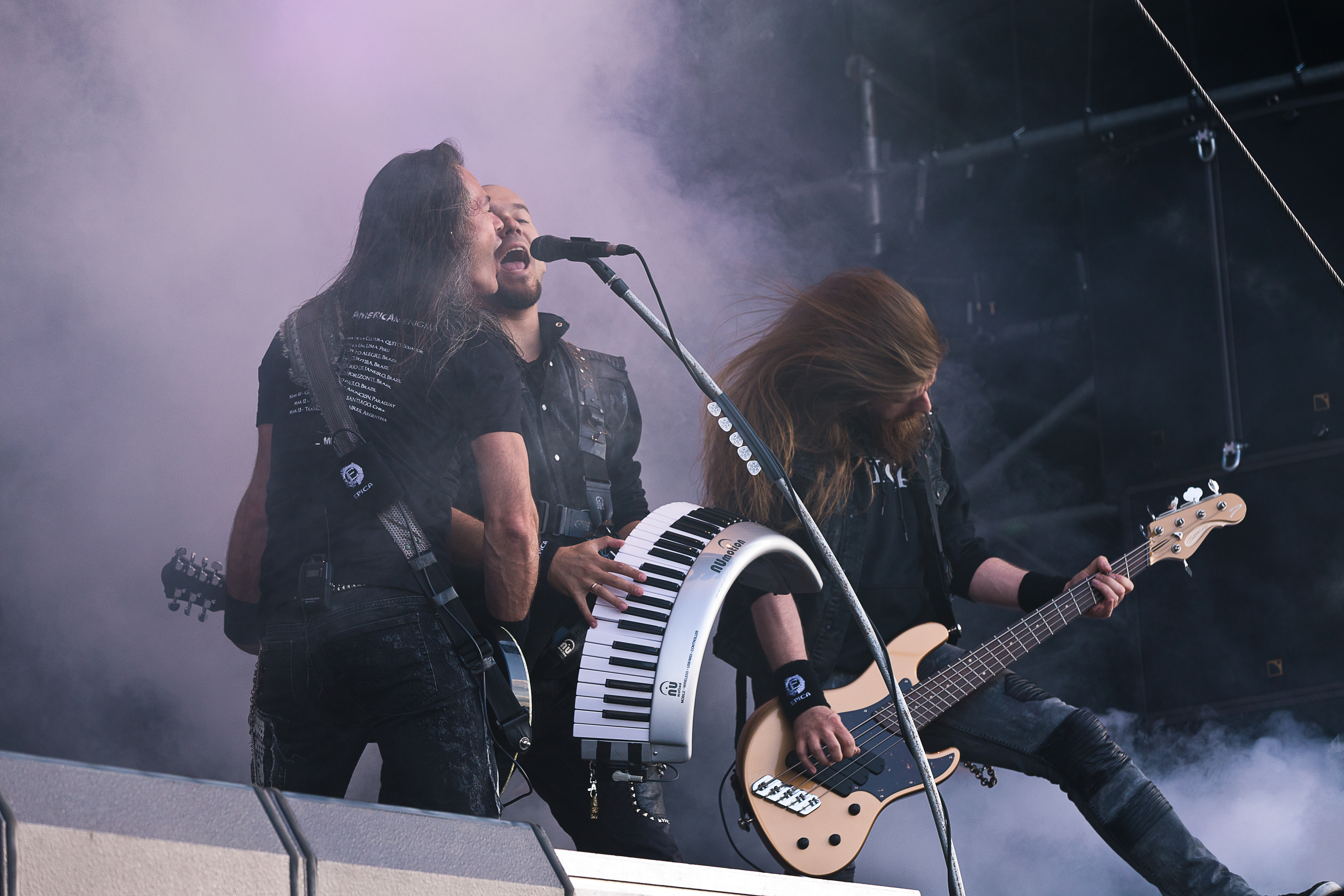 The Dutch symphonic metal band Epica at the Rockharz Open Air 2015 in Ballenstedt/Germany.